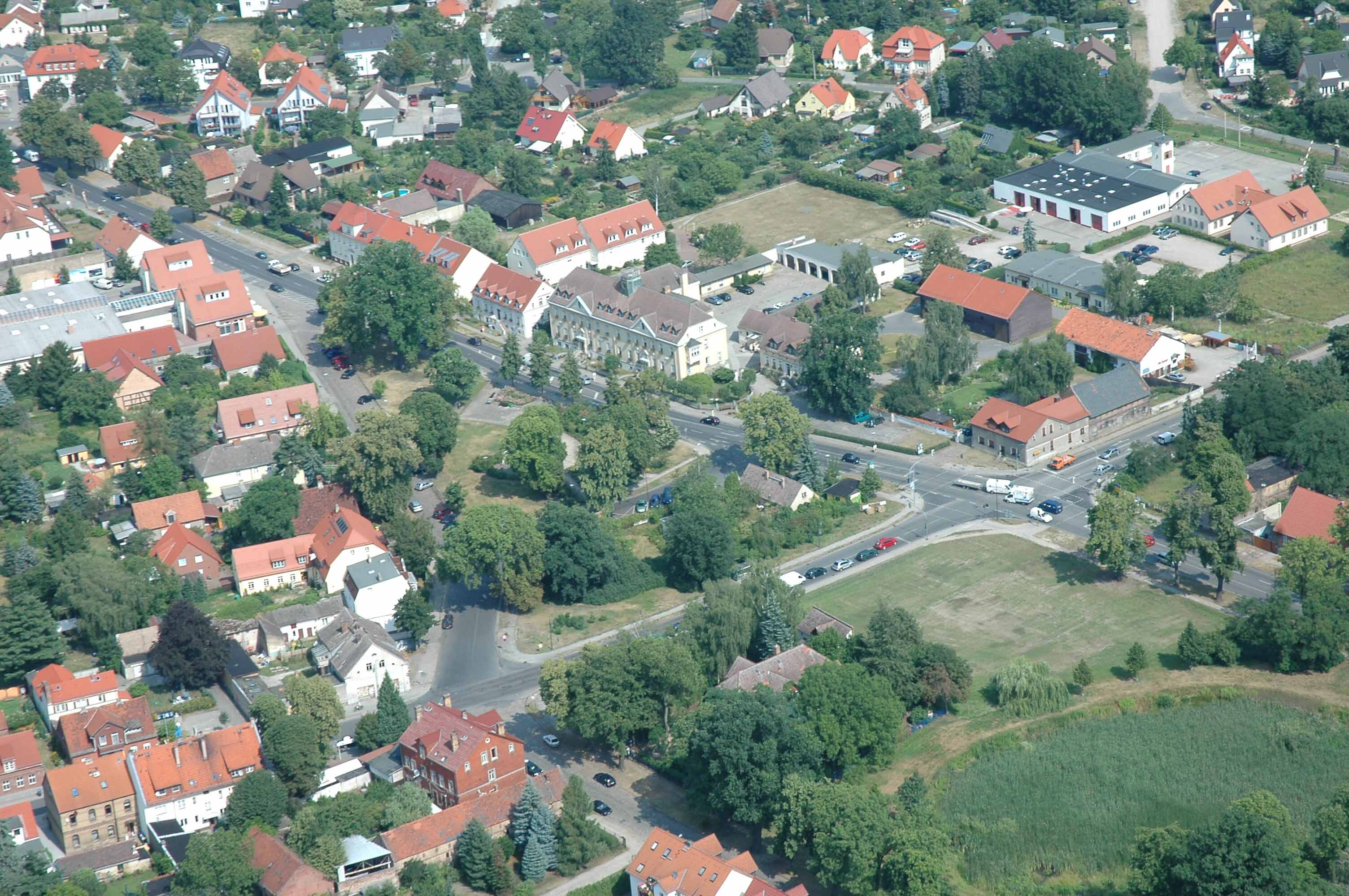 Aerial image of Falkensee and its town hall in image center, view from south-east